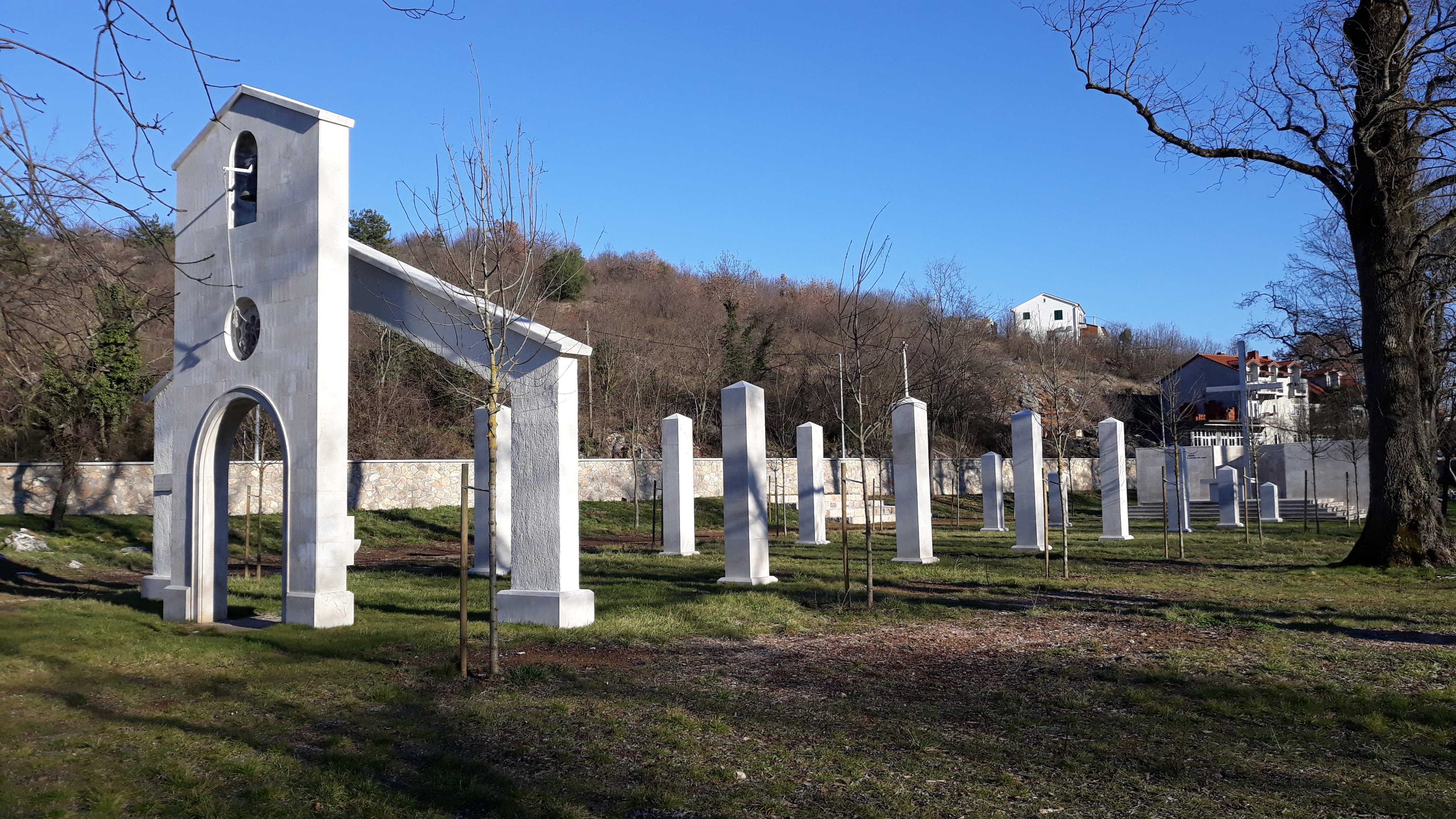 Green Cathedral, Proložac, Croatia